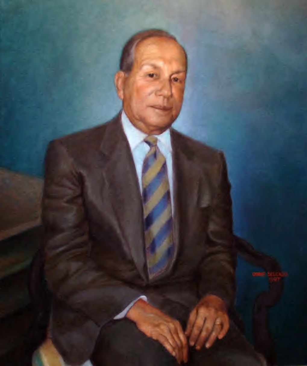 Painting of the Honorable Miguel Hernández Agosto, Secretary of State of Puerto Rico.